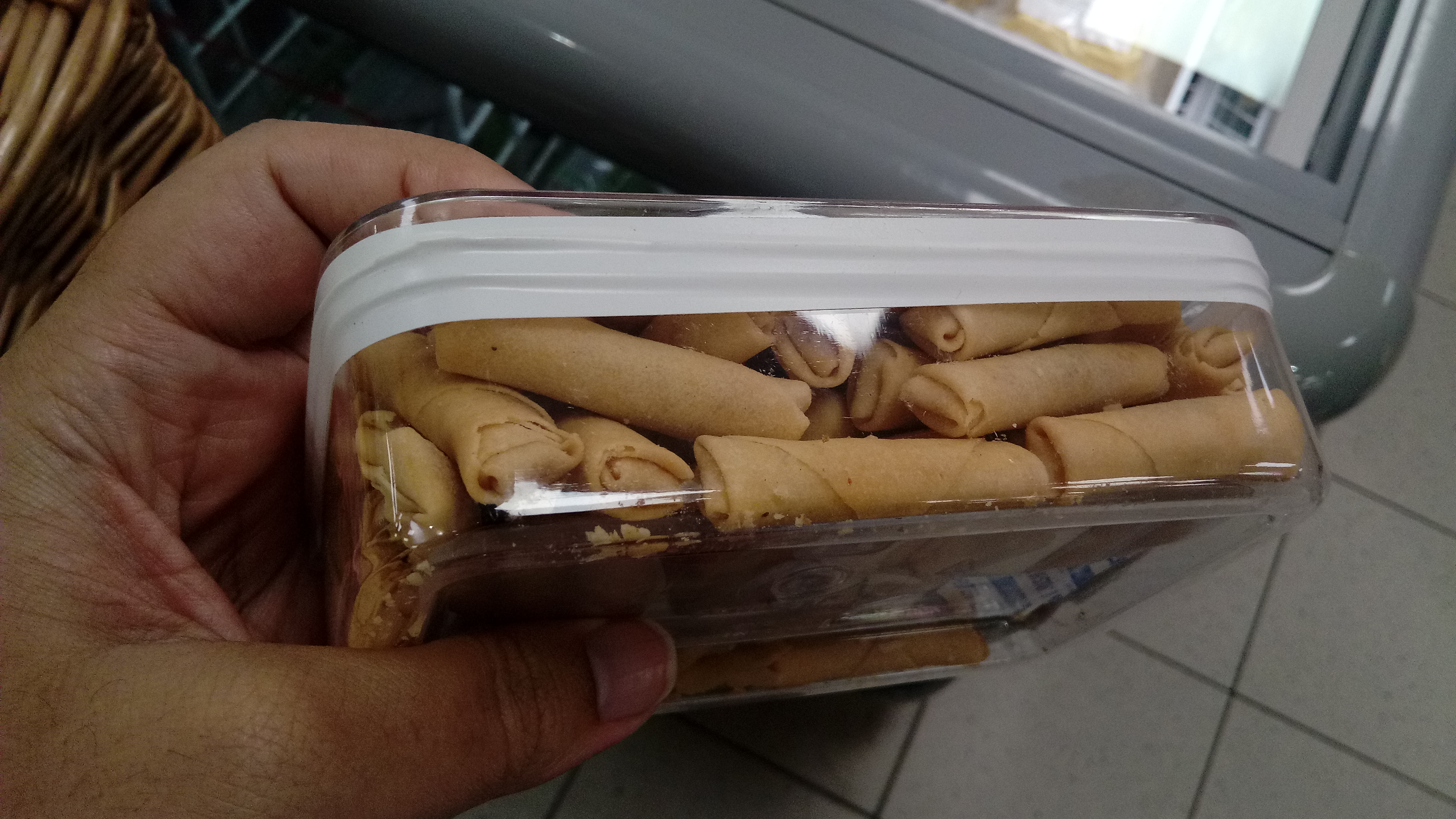 Small lumpia-shaped cookies for sale inside of the local Amazing Oriental (東方行) supermarket in the Groninger capital city of Groningen.